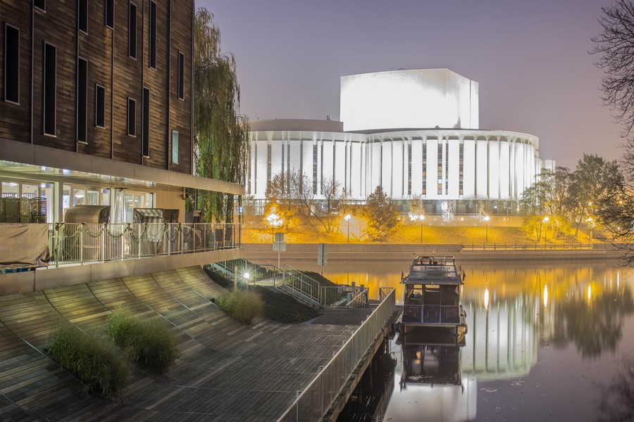 View from the Przystan marina